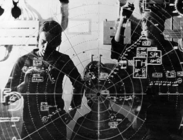 View of the plotting board aboard the U.S. Navy aircraft carrier USS Randolph (CVA-15) during the Suez Crisis.